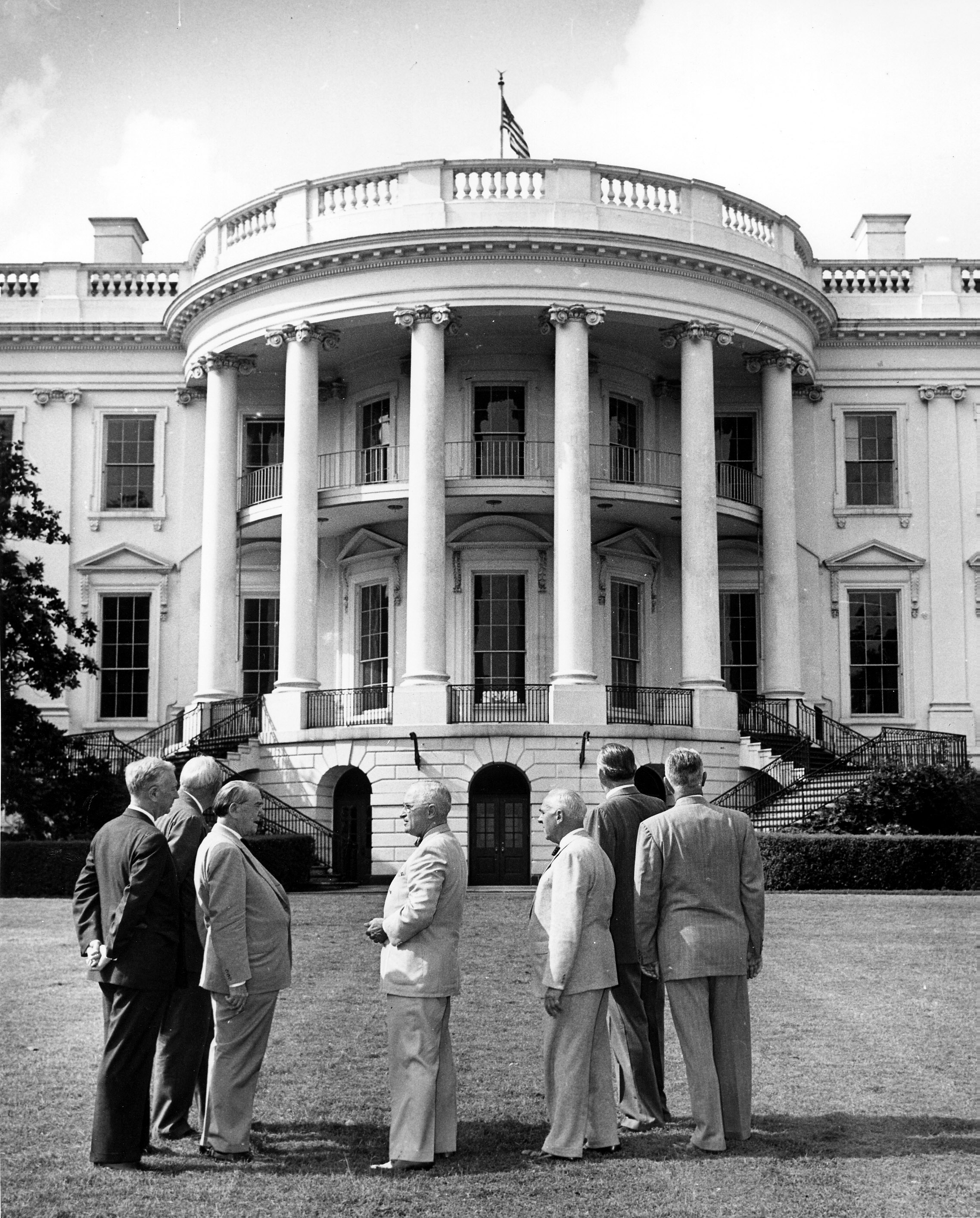 General notes: President Harry S. Truman stands on the lawn of the White House with the Commission on the Renovation of the Executive Mansion. From left to right: Senator Edward Martin; Senator Kenneth McKellar; Richard E. Dougherty; President Truman; Douglas Orr, American Institute of Architects; Representative Louis C. Rabaut; Representative Frank B. Keefe.